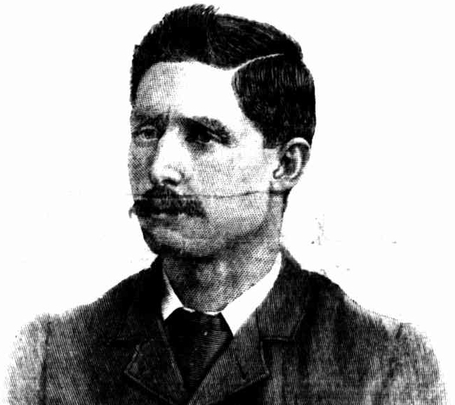 John Joseph Trait from 1893 edition of the Sportsman (Melbourne).